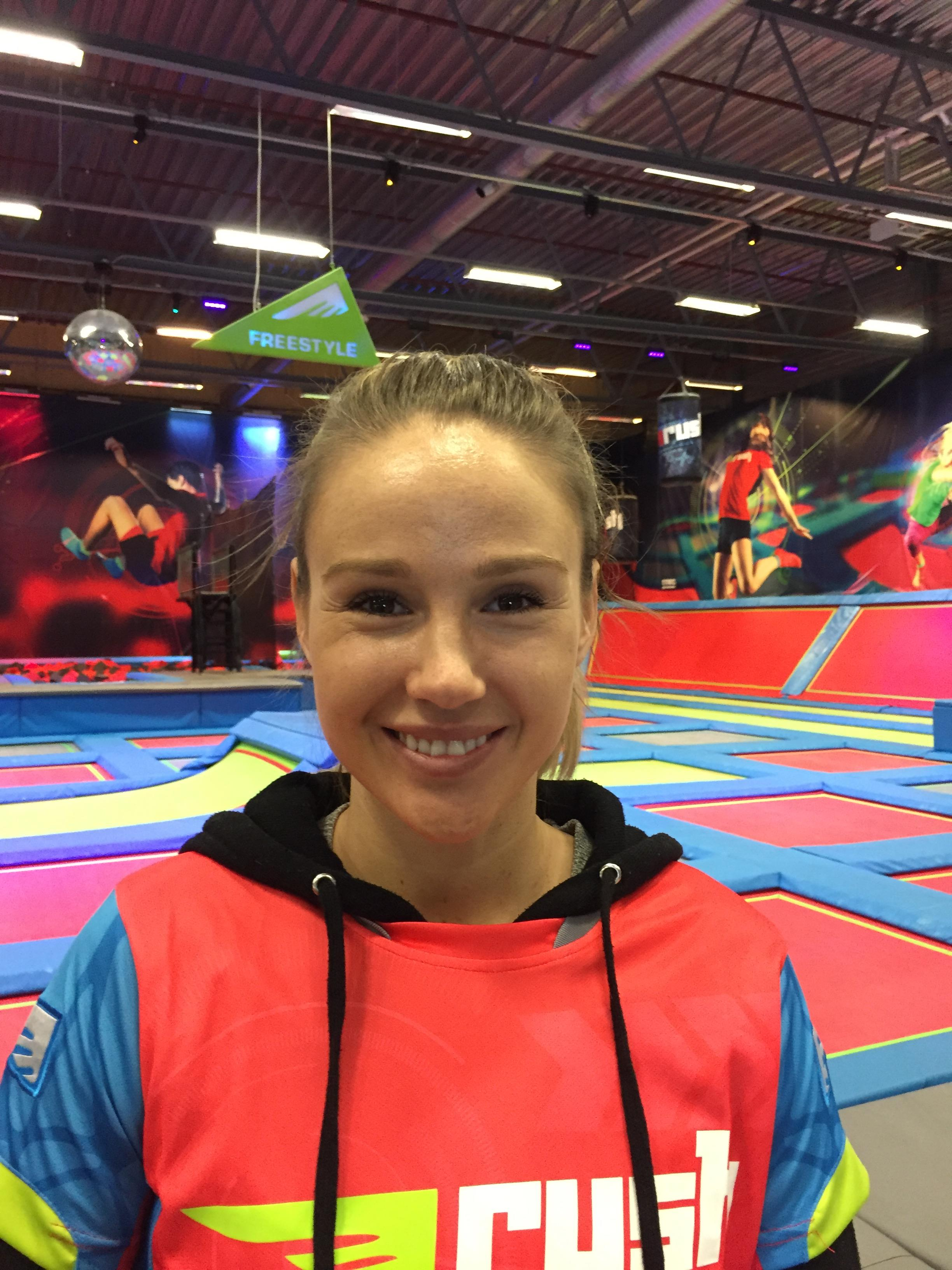 Norwegian sprinter and hurdler Rachel Nordtømme, in 'Rush Trampolinepark' in Oslo, Norway.